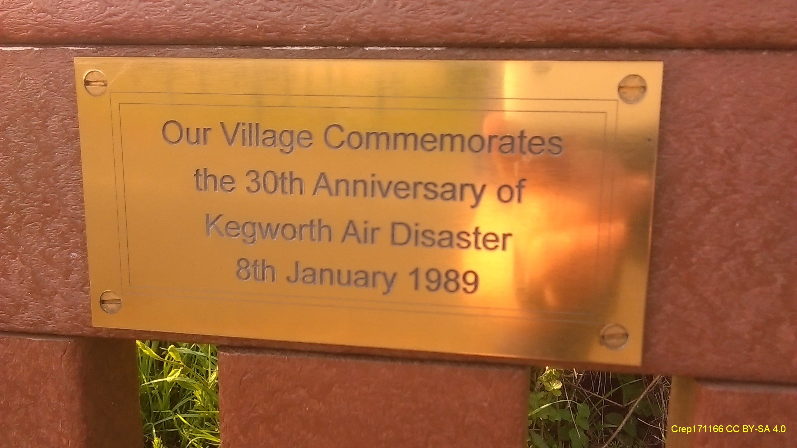 Kegworth village commemorates the 30th anniversary of the Kegworth Air Disaster by placing a memorial bench with plaque by the Ashby Road motorway bridge, near to where the plane came down.